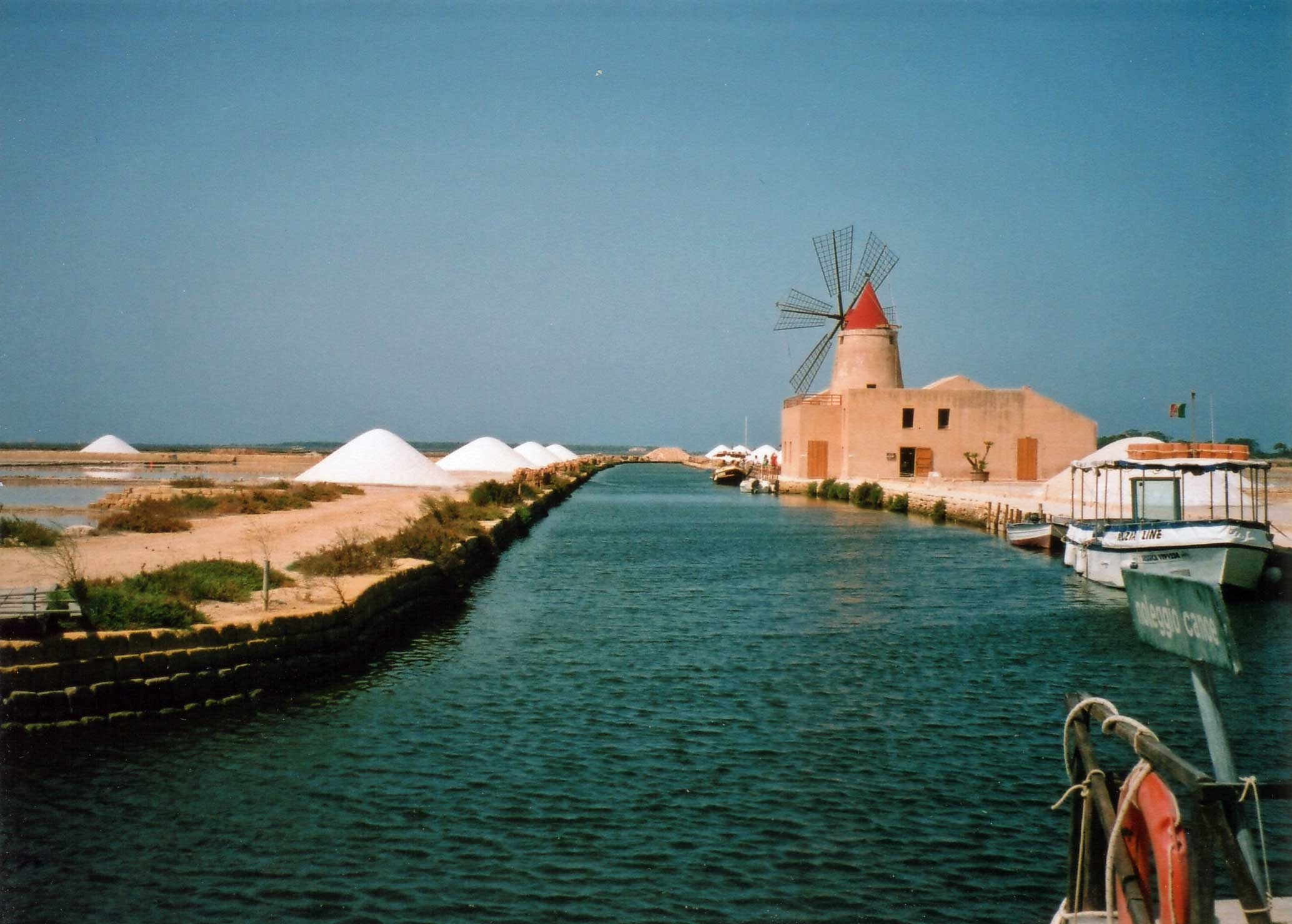 Salt evaporation ponds Ettore Infersa at Stagnone Marsala, Sicily